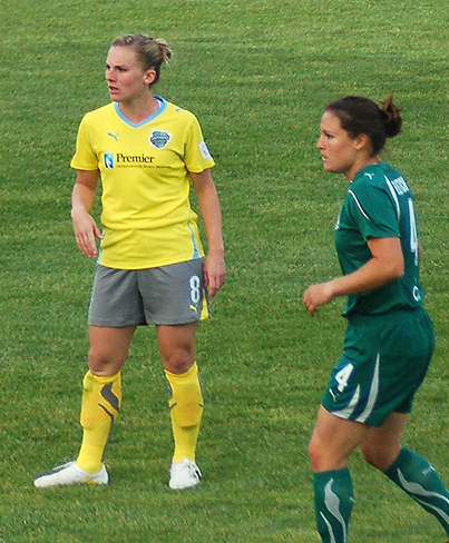 Amy Rodriguez of the WPS Philadelphia Independence.